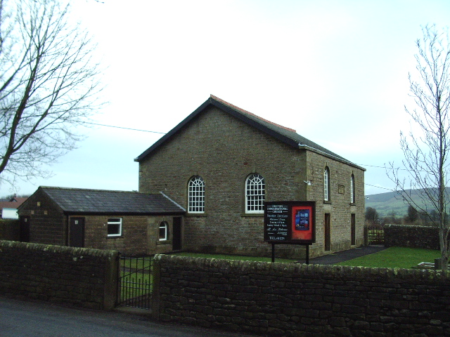 Chipping Congregational Church